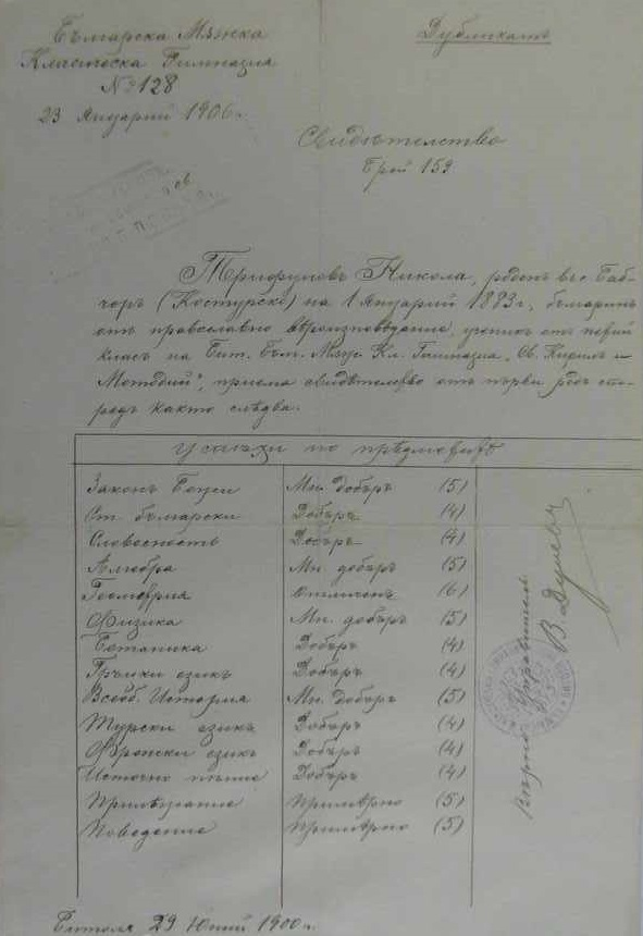 Bitolya Bylgarian Highschool Document Nikola Trufunov